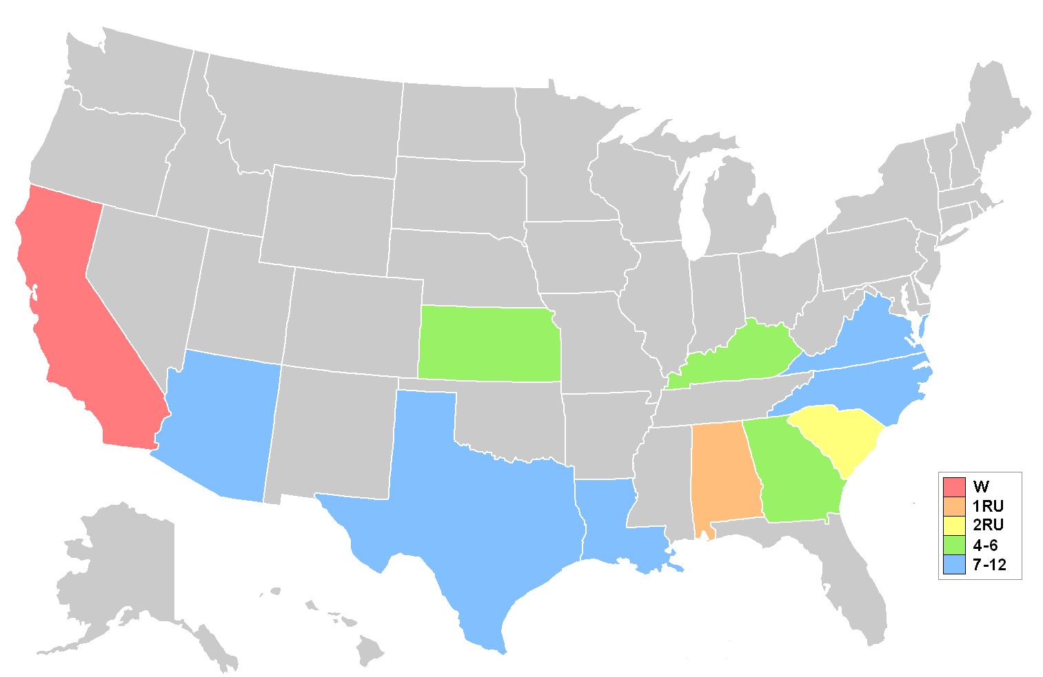 Map showing placements at the Miss USA 1992 pageant. Key on graphic shows colour coding for break down of placements.